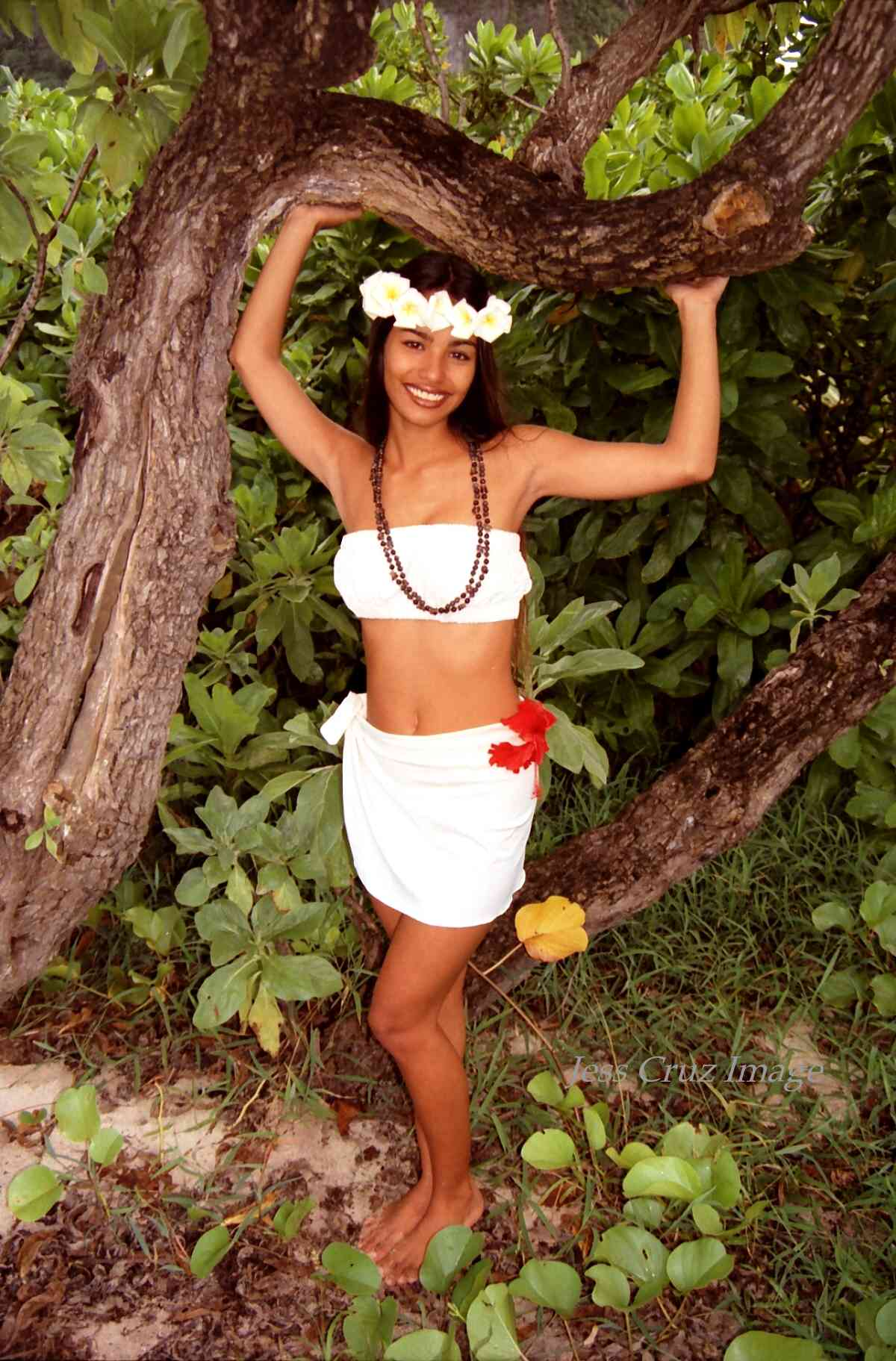 Once published on Guam postcards, I have too many great pictures of the Plumeria girl